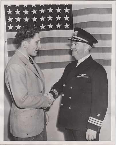 Commander Harold "H.J." McNulty (USN) congratulates 22 year old Fred Hutchinson at recruiting station upon his 1941 enlistment in the U.S. Navy. Other information Also, ACME photograph was published in 1941 between 1923 and 1963 and per the Prints and Photographs Division of the United States Library of Congress, Washington, D.C., no copyright renewal has been filed for the photograph.